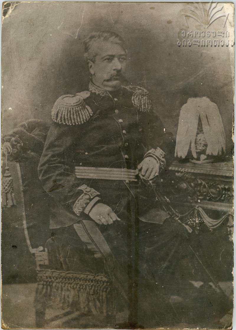 Sheriph-Begi (Khimshiashvili)